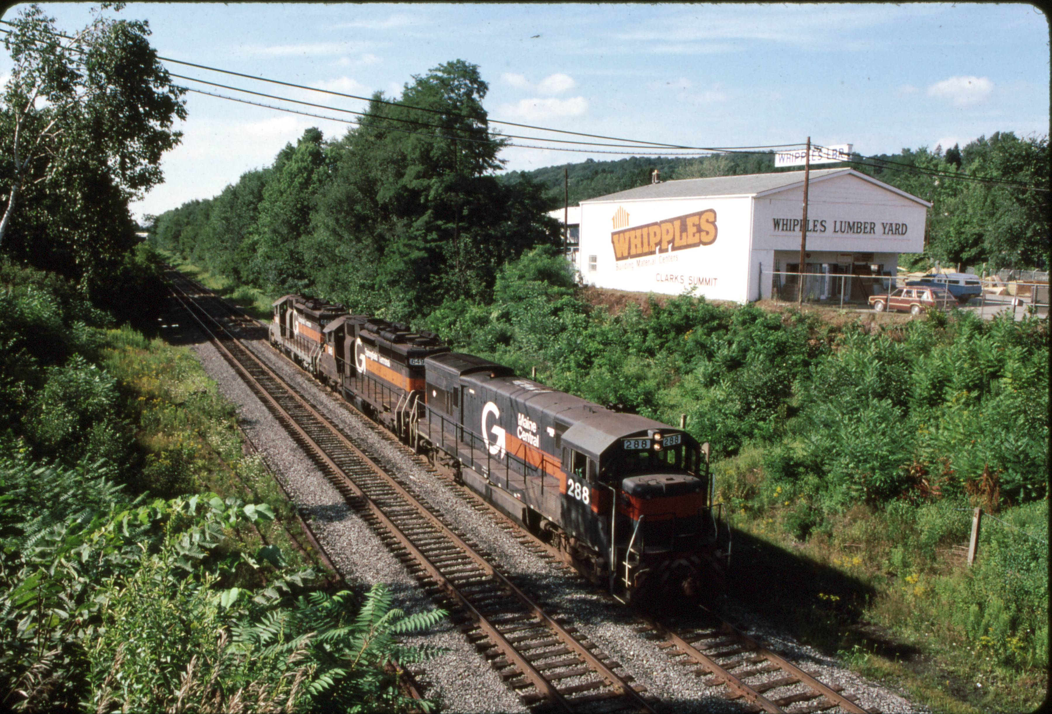 Three Guilford units await assignment at Clarks Summit on the Nicholson Cutoff in 1989.